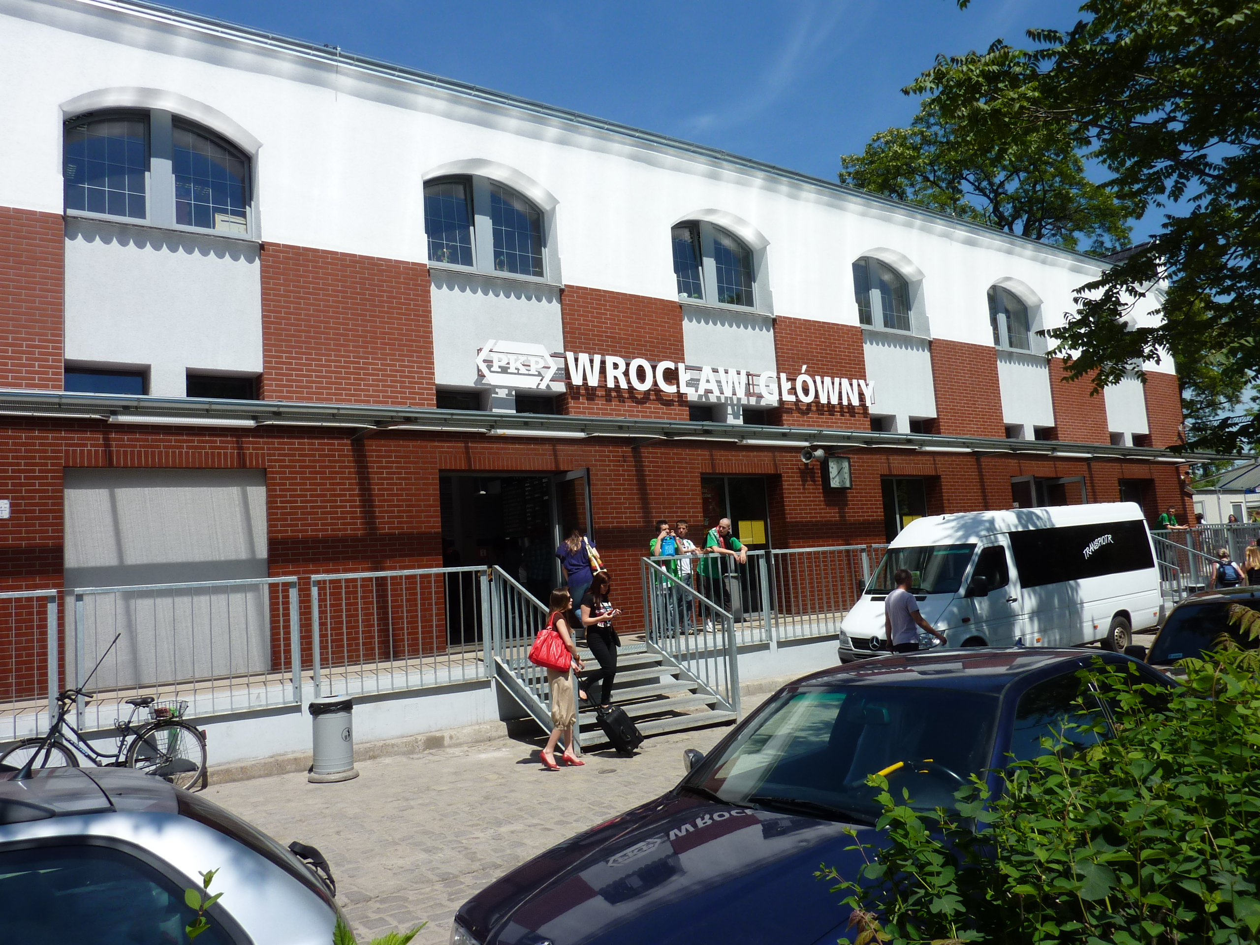 Temporary railway station Wrocław Main Station during the reconstruction of the historical buildings (planned for years 2010-2012).